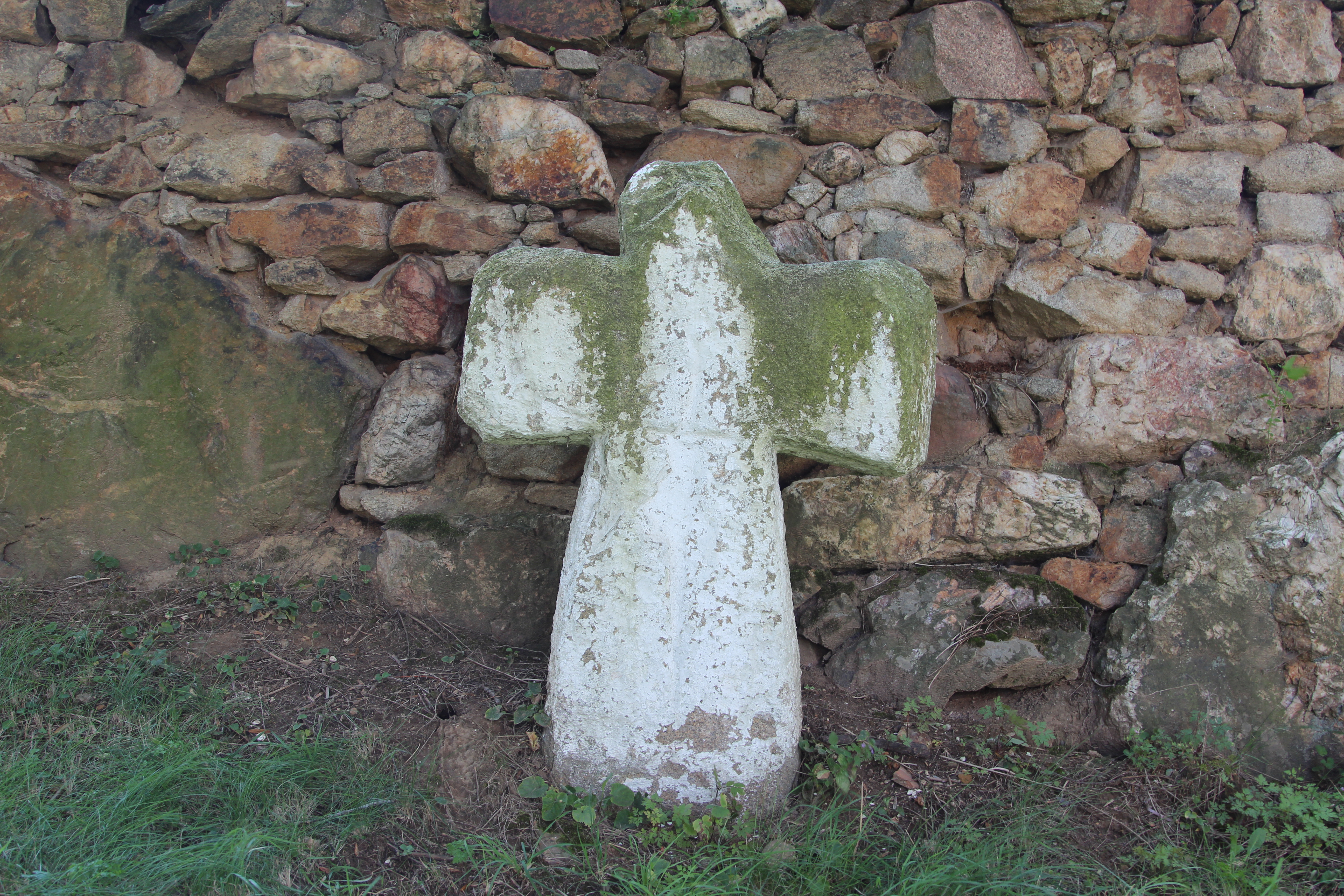 Stone cross in Pożarzysko